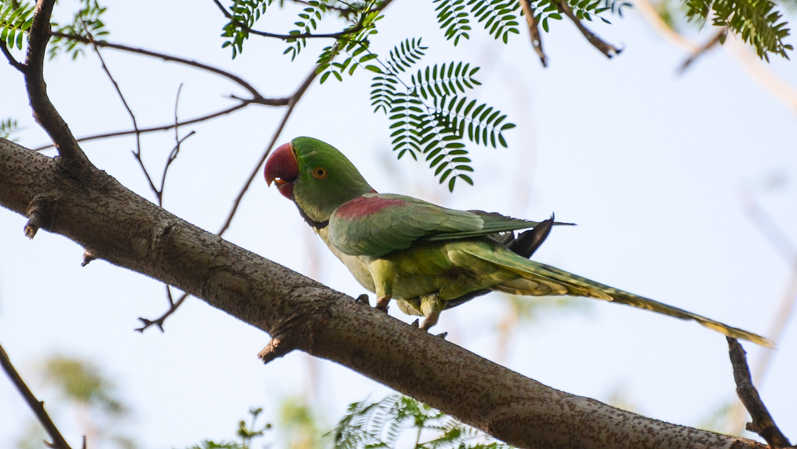 Alexandrine Parakeet. This image is one in the series of photographs I'm uploading under the tag name "Birds of IIT Delhi".